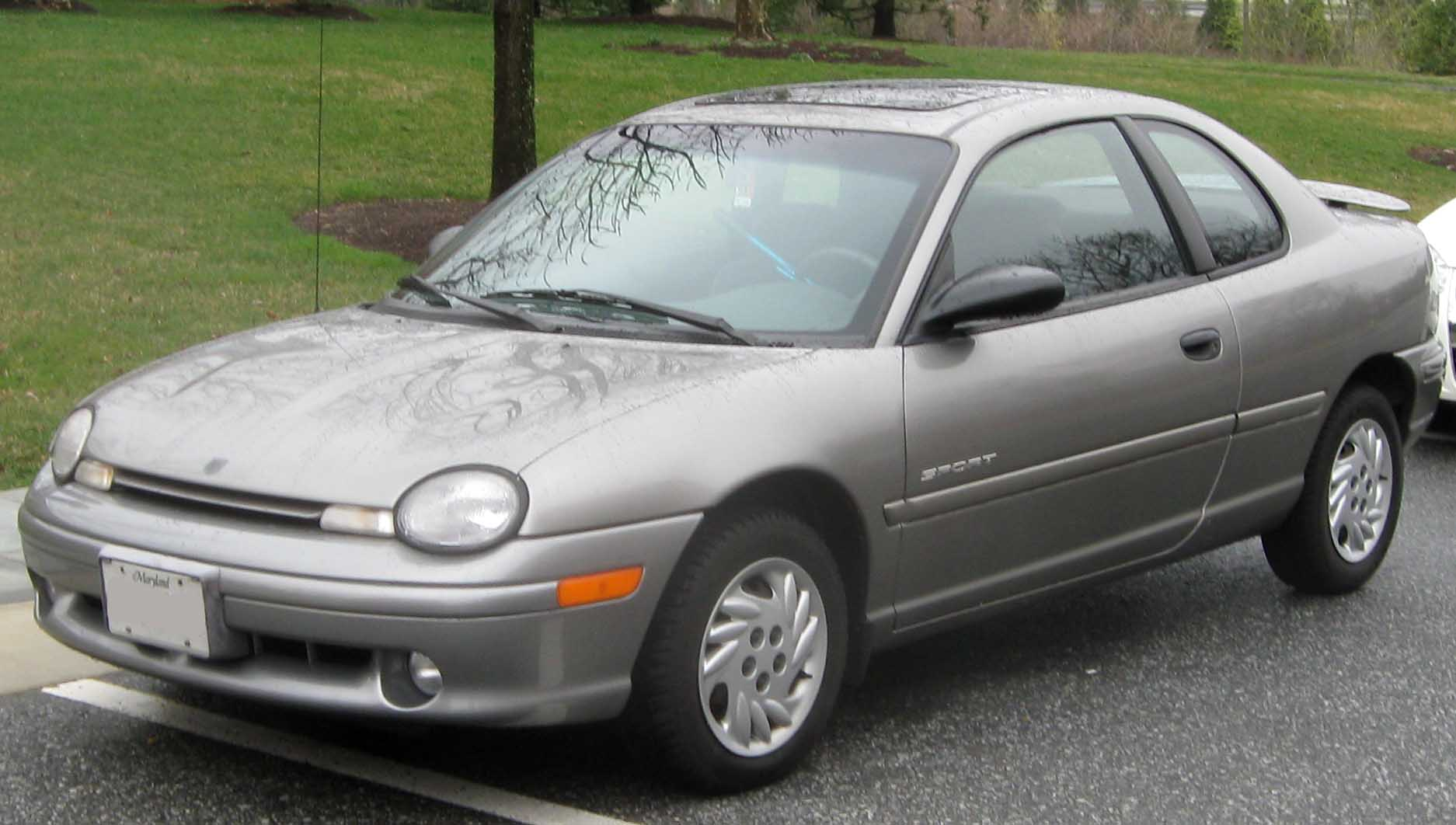 1995-1999 Dodge Neon photographed in College Park, Maryland, USA.